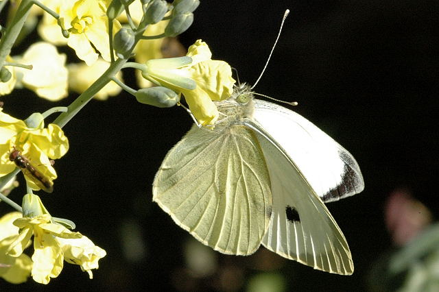 Picture taken in Commanster, Belgian High Ardennes . Species: Pieris brassicae male